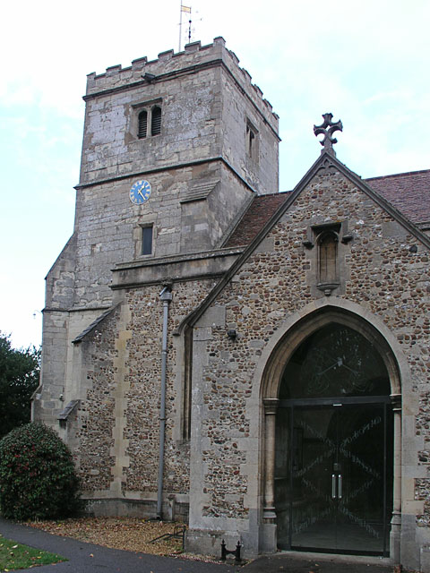 Cherry Hinton church.